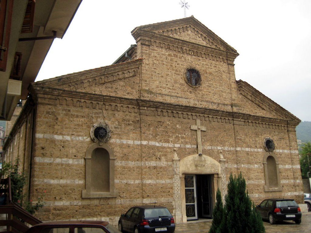 Photos from Arianit Dobroshi for Wikimedia Commons. Original Filename "arianit/PrizrenMirushe/IMG_0036.JPG"